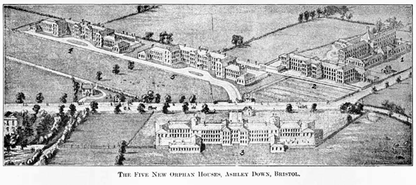 Orphanages at Ashley Down.